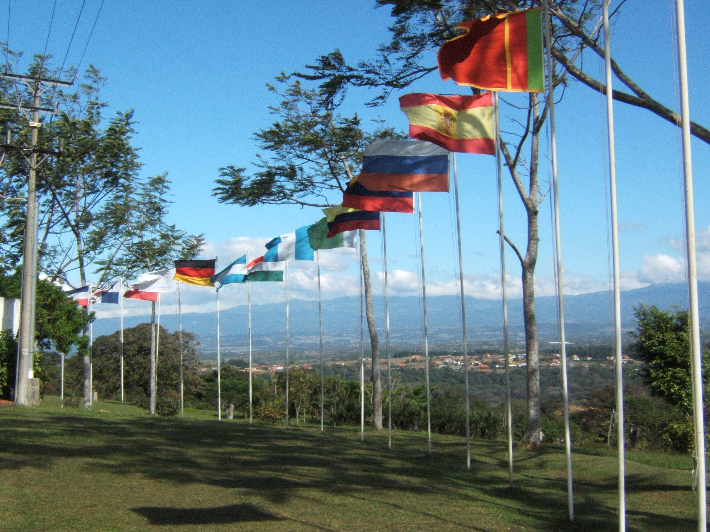 Photo taken by Rachel Kutzley